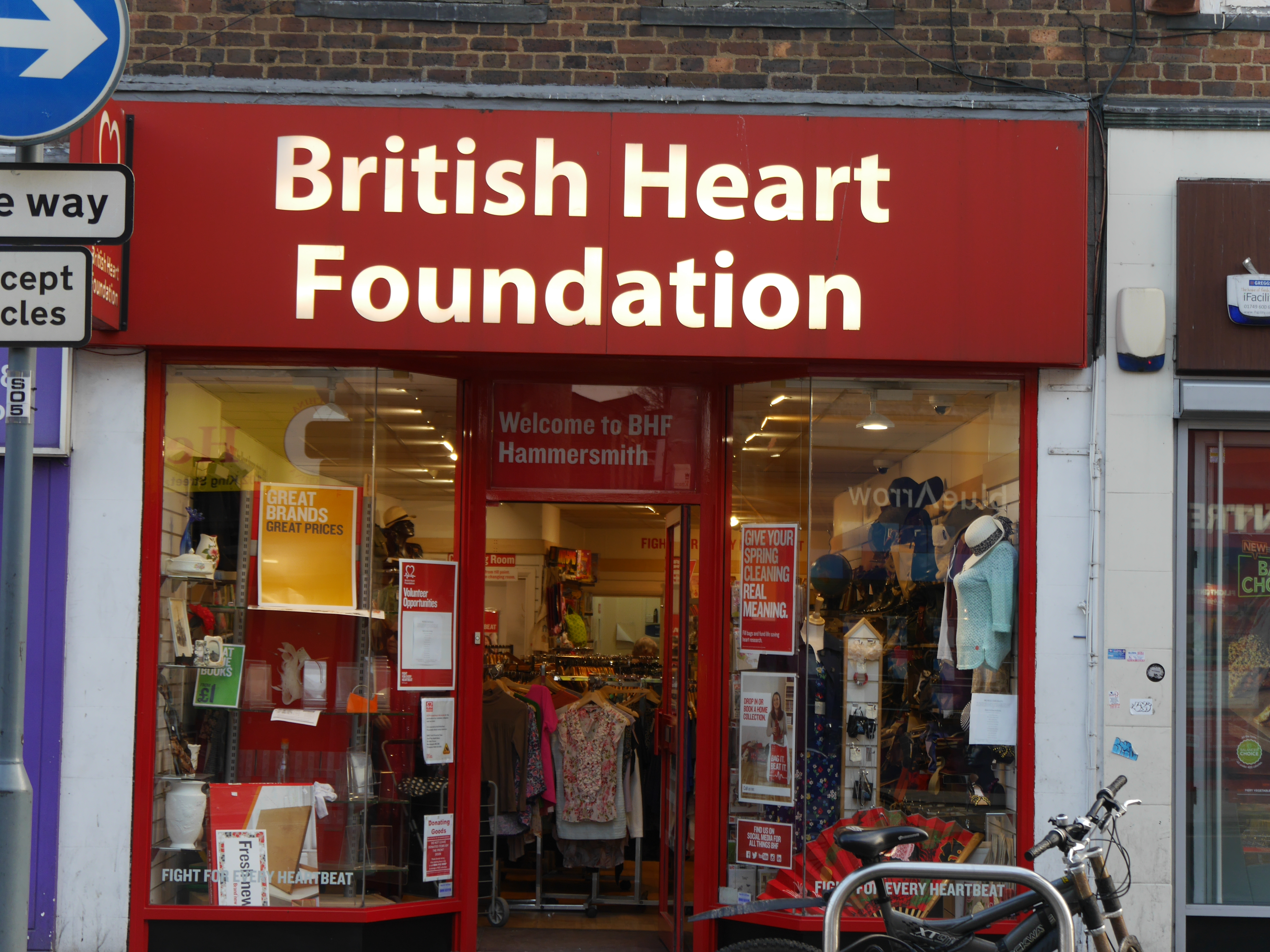 King Street, Hammersmith